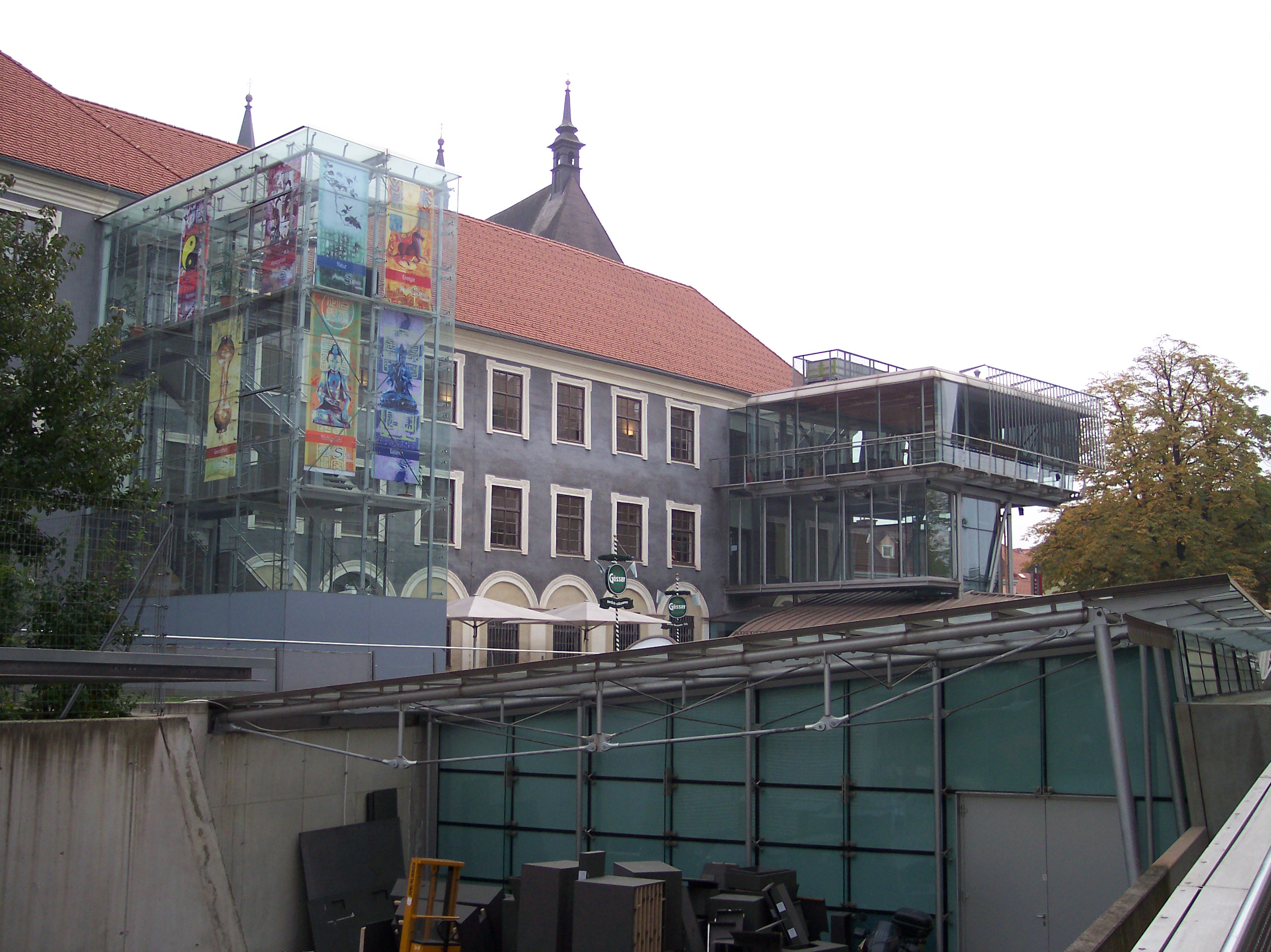 Museum hall Leoben: old part around 1600, new parts from 1997.